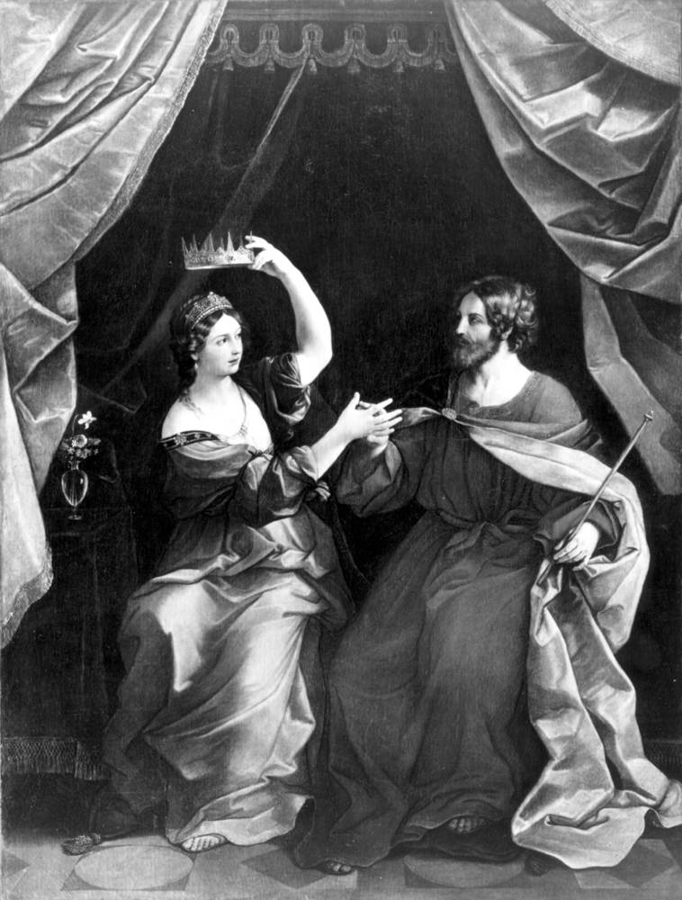 Ninus übergibt der Semiramis seine Krone